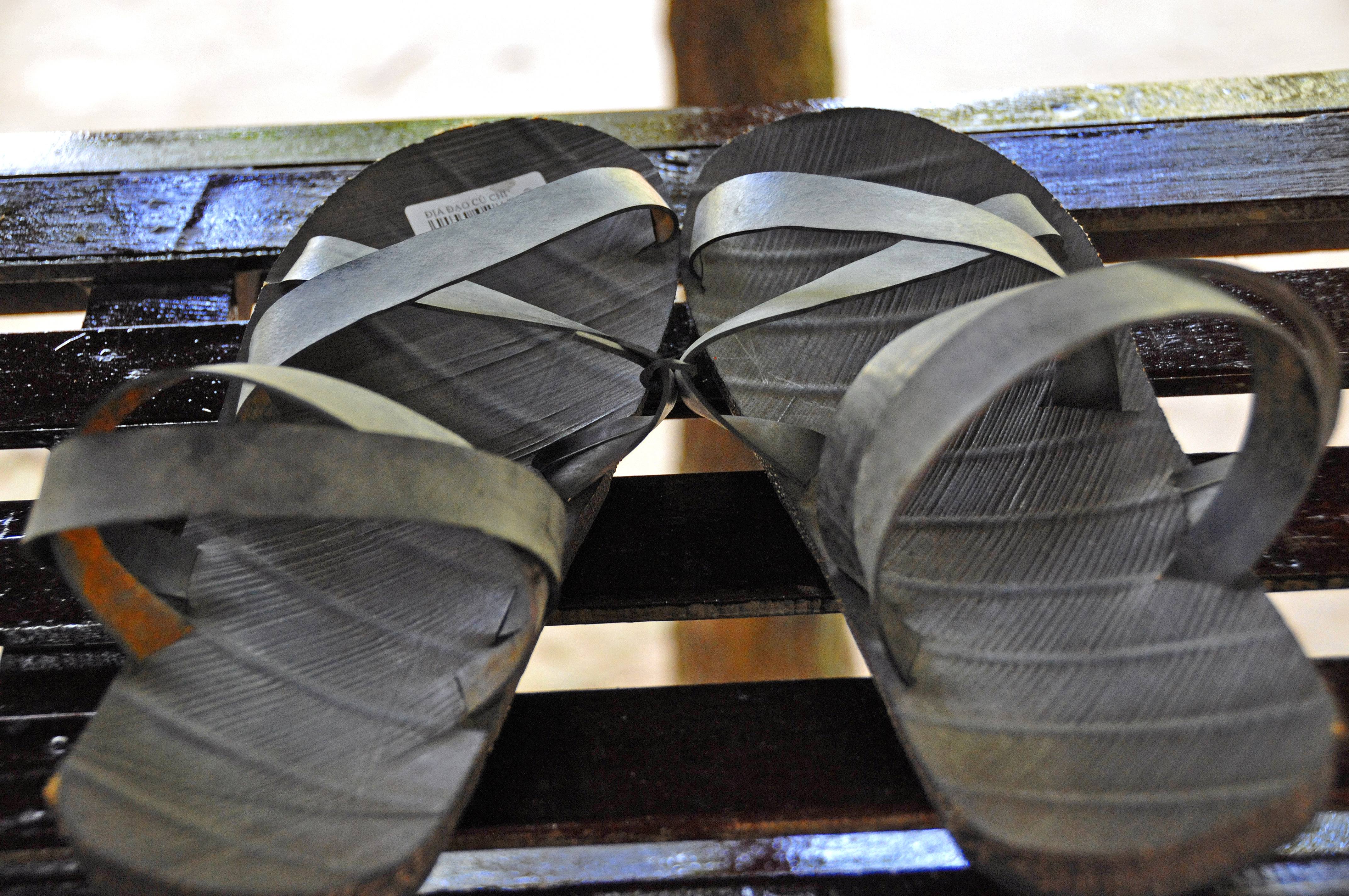 These are made by recycling used tires. Note, there is a bar code, bet that wasn't there in the war years. Cu Chi Tunnels, Ho Chi Minh City, Vietnam